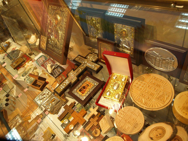 Diocesan exhibition 'Russian Pilgrim'